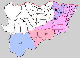 群馬県多野郡の町村。